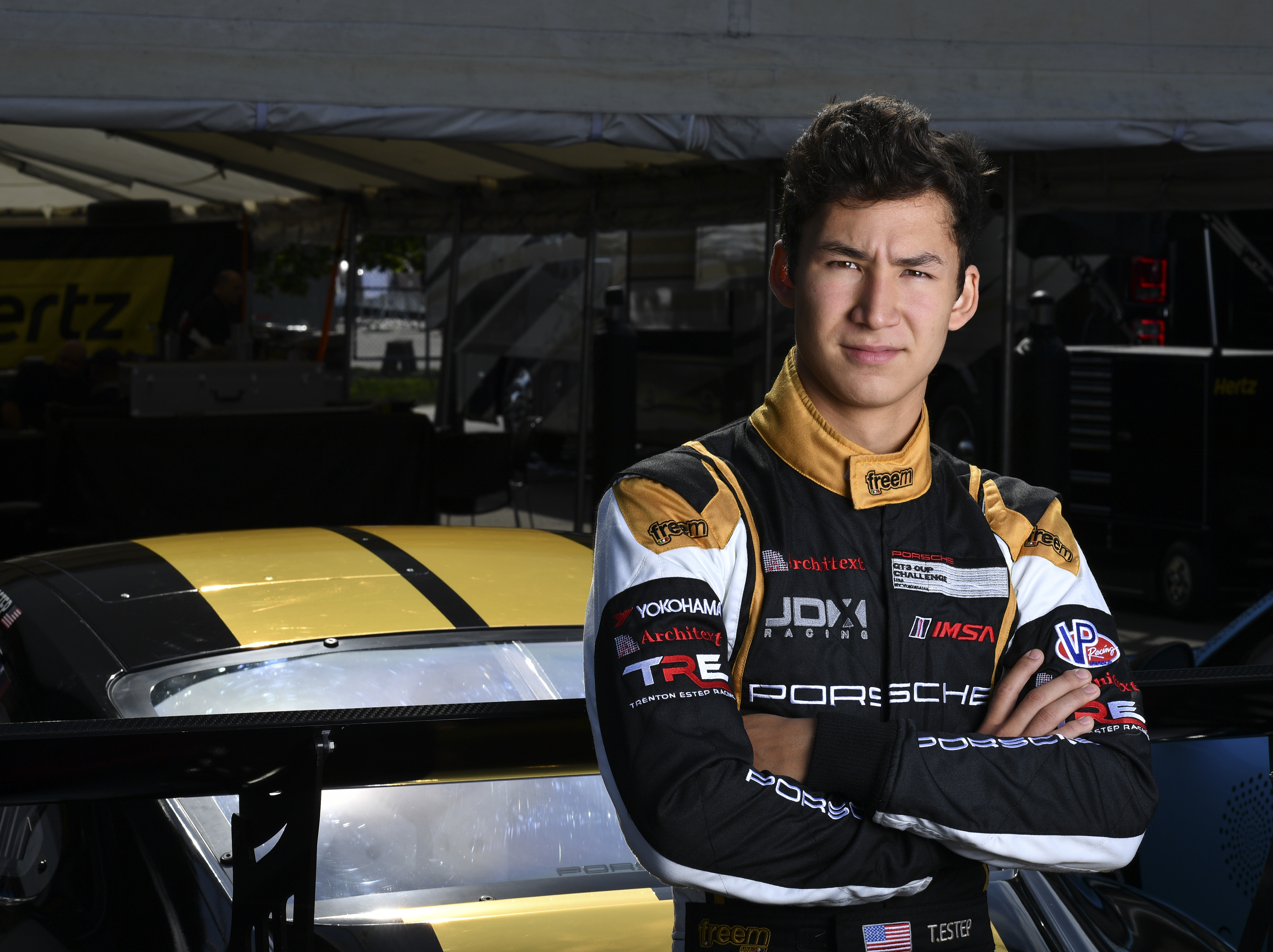 Trenton Estep Hertz Porsche GT3 Cup 2017 - Watkins Glen